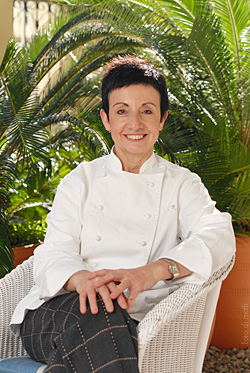 Portrait of chef Carme Ruscalleda, photographed by Matti Hillig. The photo was taken on May 12, 2006 in her restaurant in San Pol de Mar, Spain. Mrs. Ruscalleda is a renowned Catalan chef of the restaurant Sant Pau in Sant Pol de Mar, near Barcelona. She also owns and manages the restaurant Sant Pau de Tòquio in Japan. High-resolution versions of this and more photos are available. Please contact me by mail